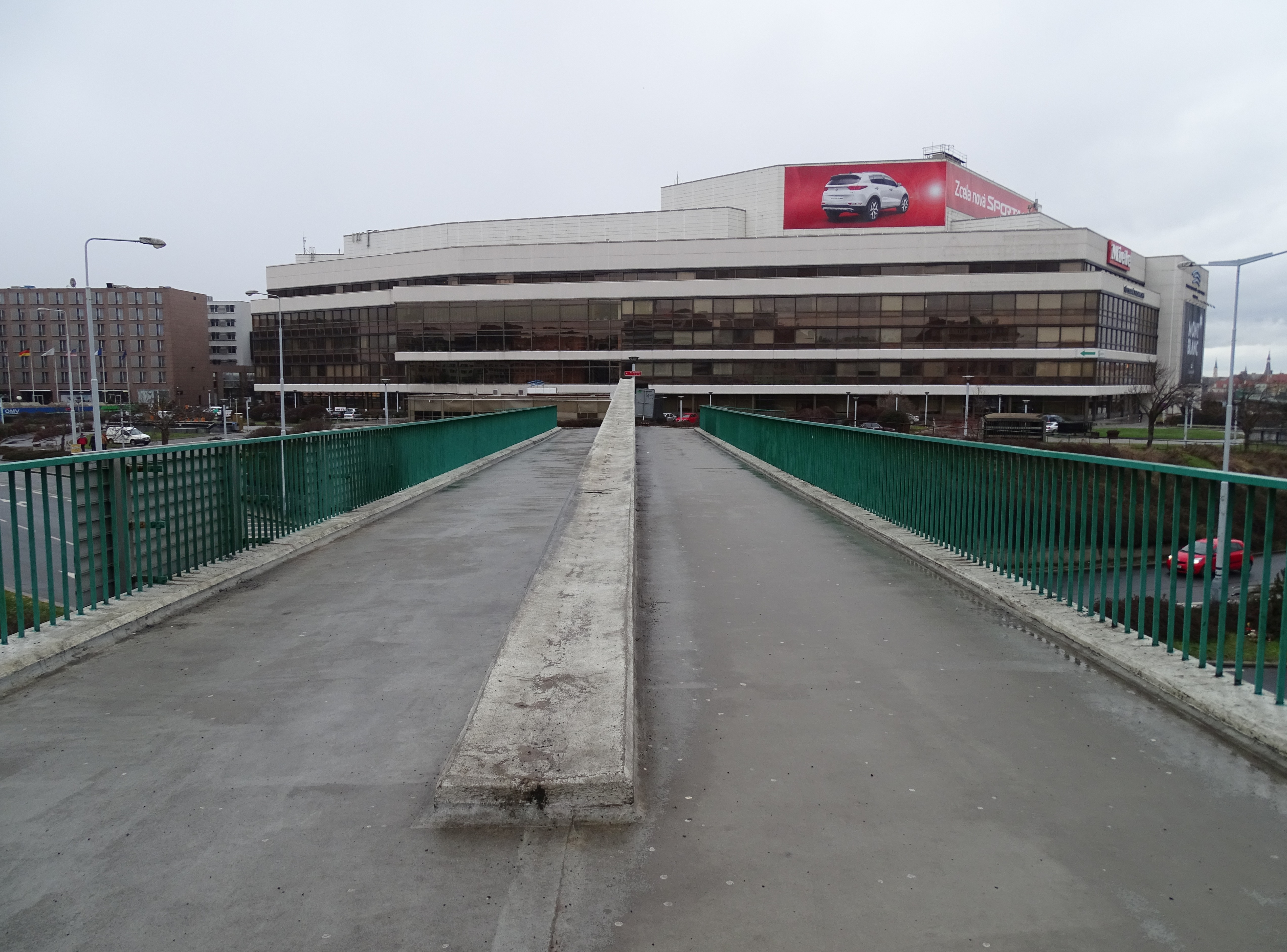 Prague-Nusle, Czech Republic. Pankrácké náměstí, Prague Congress Centre.